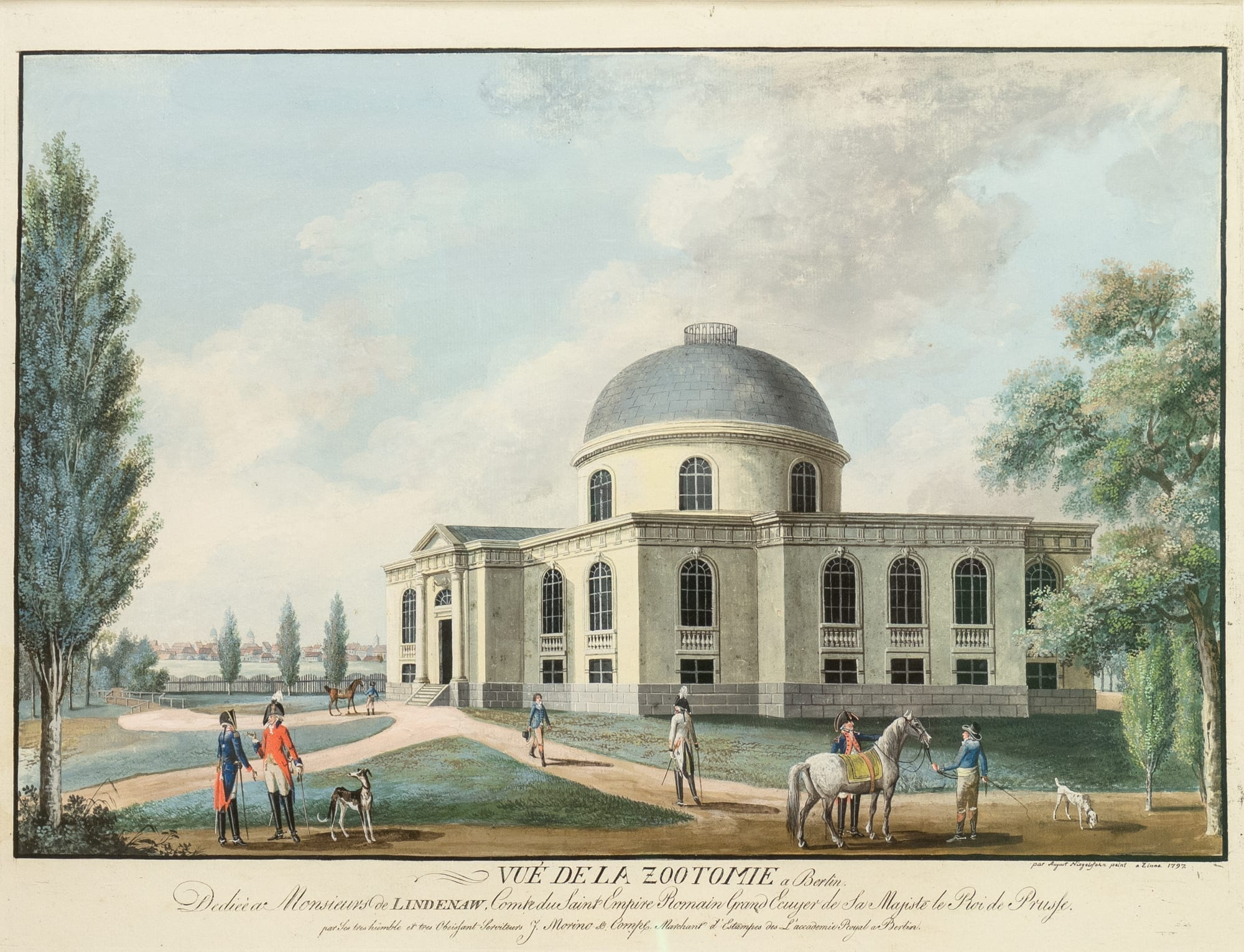 A. Niegelsjahr, painting: Langhansbau in Berlin